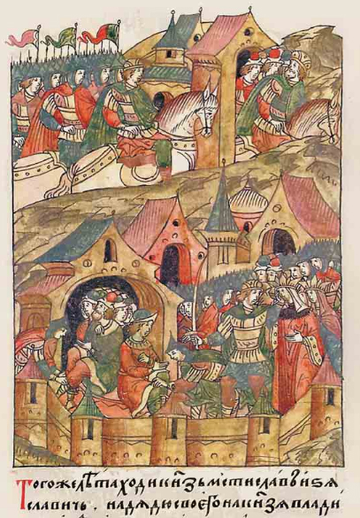 Mstislav Iziaslavich with his uncle Vladimir; Vladimir with his mother and wife